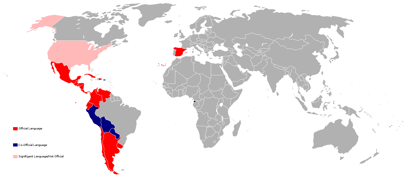 Places where Spanish is spoken